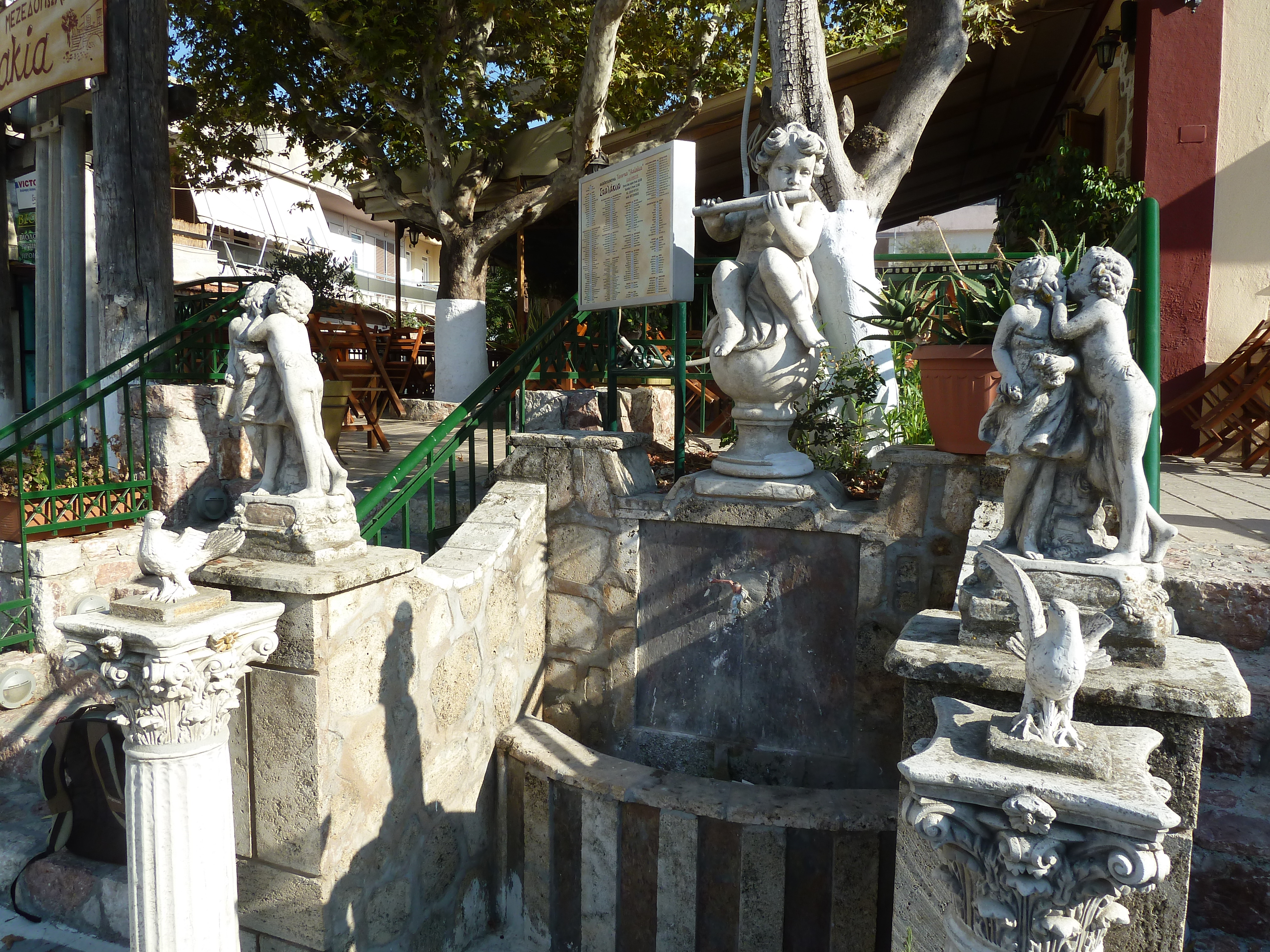 Well. Pastida, Rhodes, Greece.